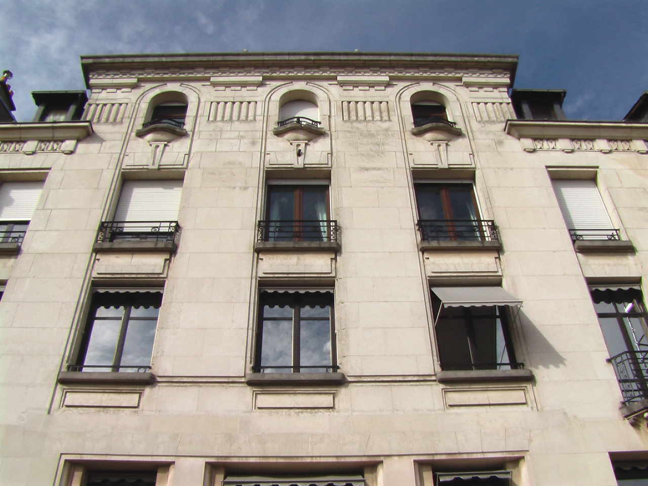 Art Déco façade of a bank in Poitiers, by the Martineau brothers, 1928